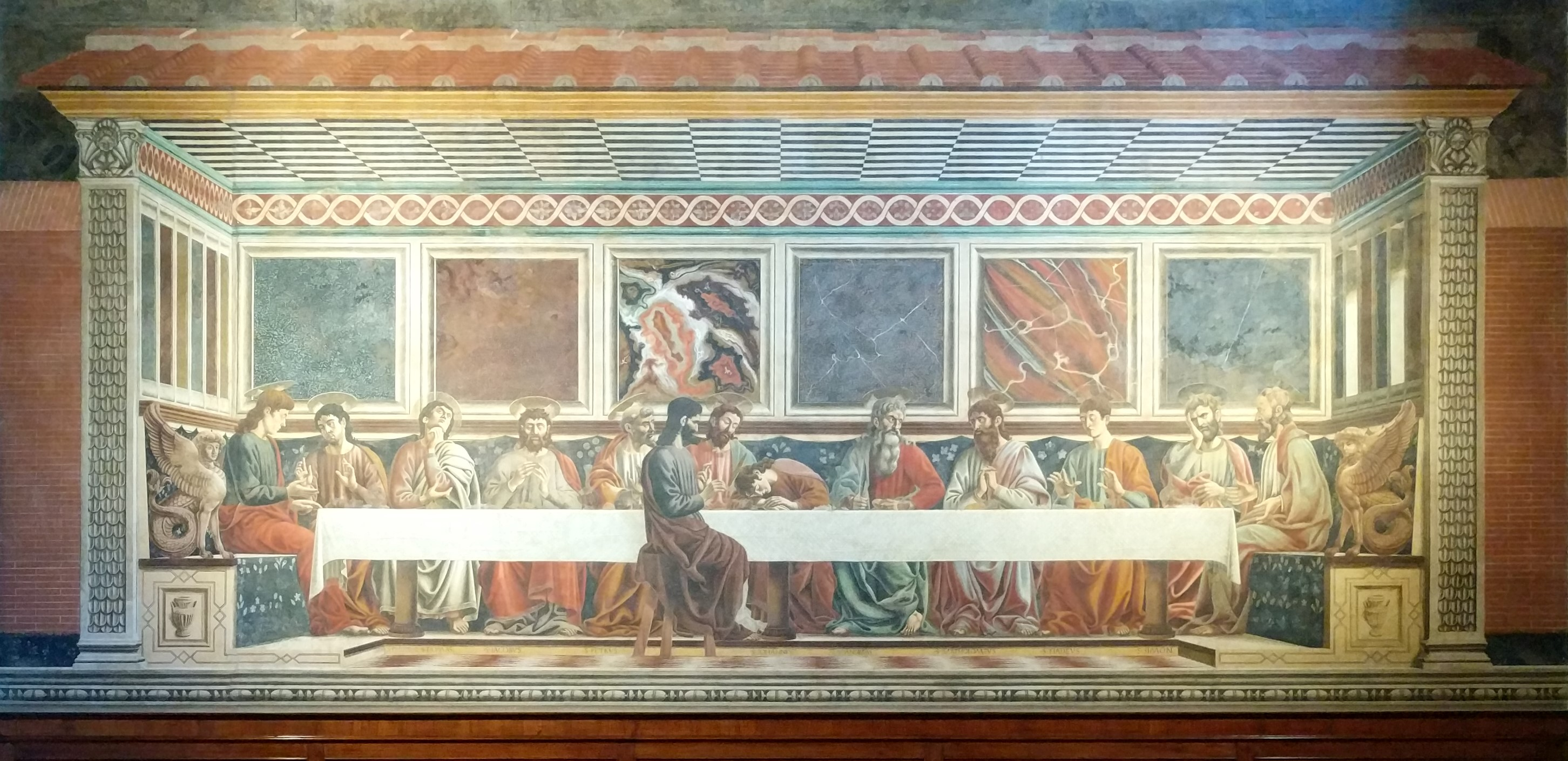 Cenacolo da Andrea del Castano